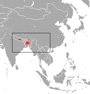 Little Nepalese Horseshoe Bat (Rhinolophus subbadius) range